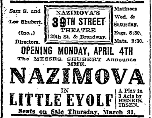 Advertisement in The New York Times for the opening of Nazimova's 39th Street Theatre in New York City.